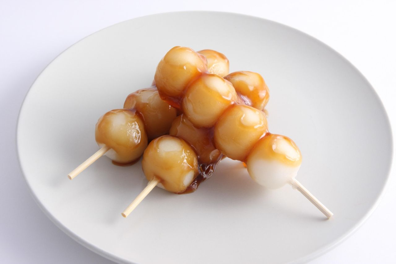 So I saw Dango in Samurai Champloo and I was immensely curious on what it was. I saw some at the grocery store and brought it home.. I was a bit let down. Maybe it would have tasted better if it was fresh. It was soy-saucy & sweet, which is a weird combo. My mouth was confused.